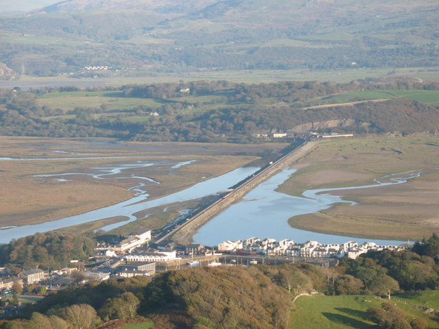 Y Cob Porthmadog